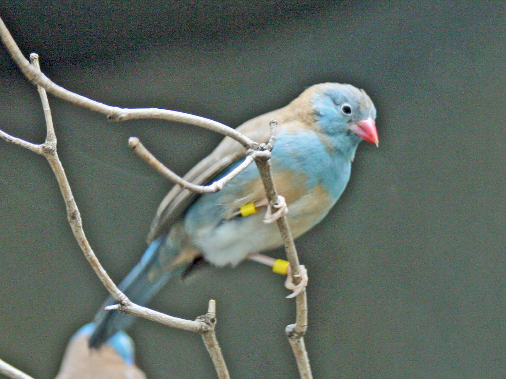 Female Blue-capped Cordon-blue (Uraeginthus cyanocephalus) - San Diego Zoo